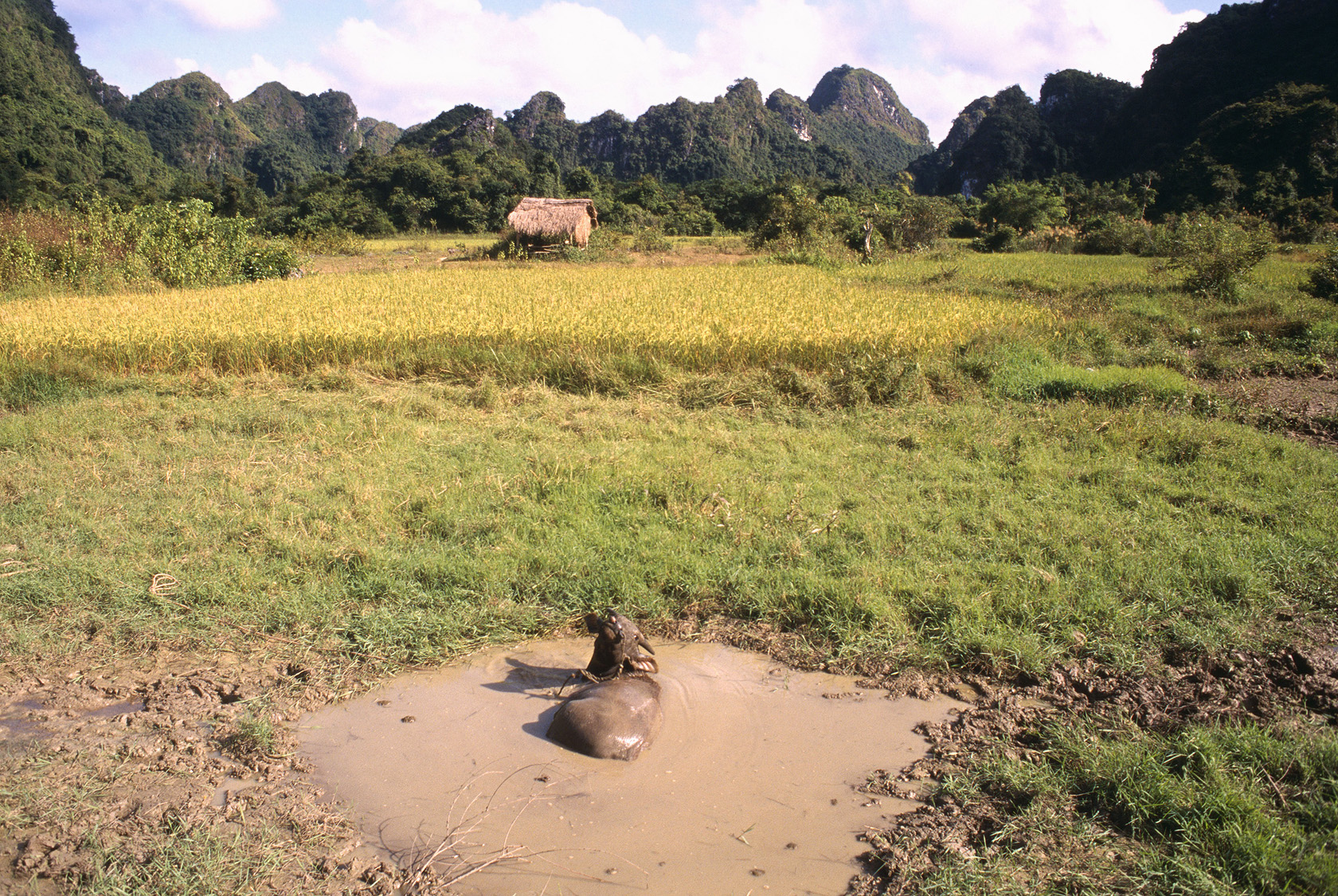 Agriculture on Cat Ba island, Vietnam